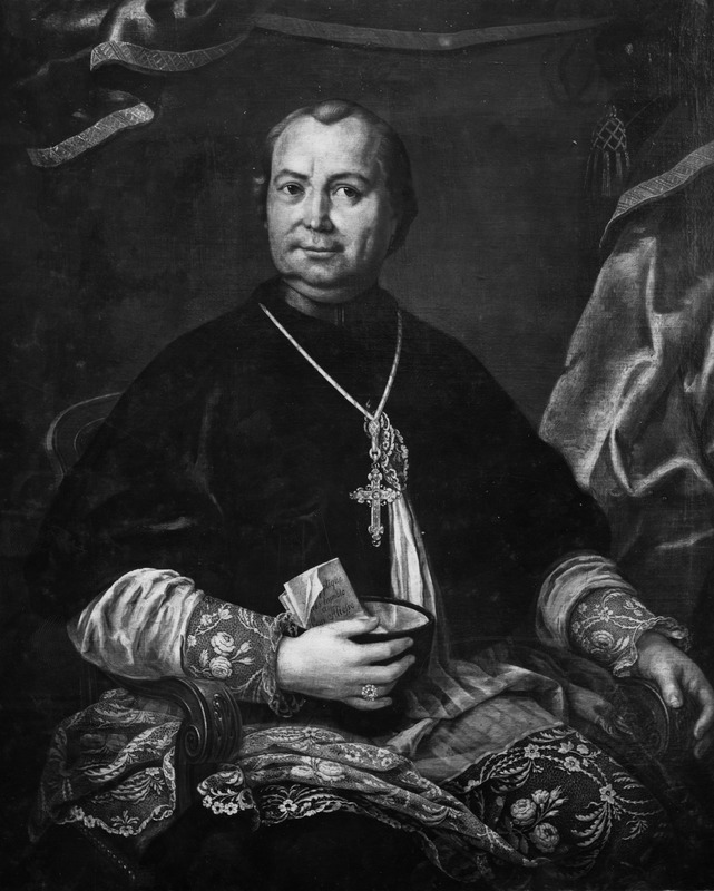 Célestin Thys, last prince-abbot of Stavelot-Malmédy (1787-1794, died 1796). Painter unknown. Following popular unrest in Stavelot in the aftermath of the Revolution in France, he abolished feudal rights in 1789 but reneged on his concessions and set up a tribunal to prosecute revolutionaries in 1793 when the Austrian armies momentarily gained the upper hand. He fled Stavelot when the French invaded later that year and the twin abbeys were abolished.